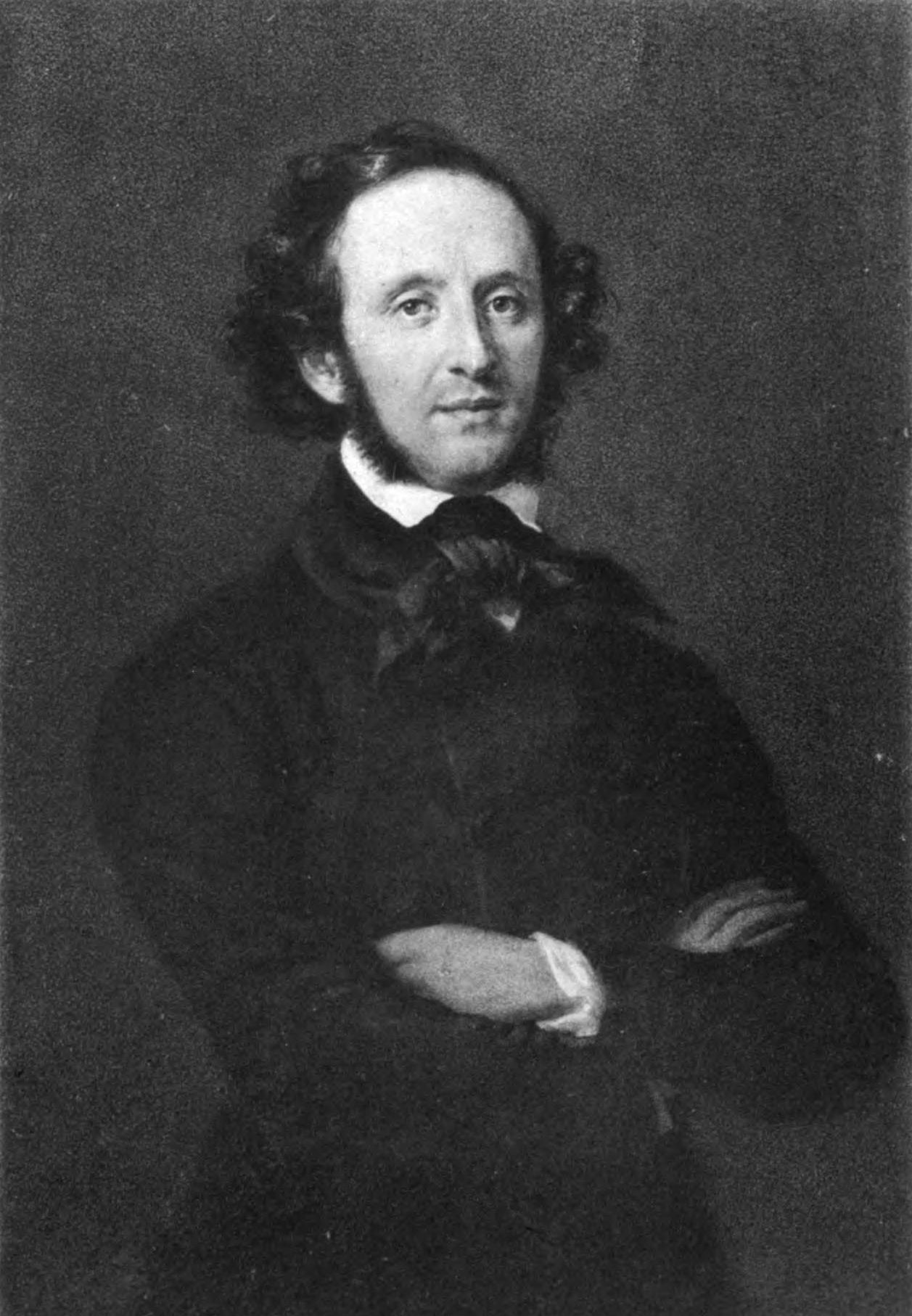 Selected letters of Mendelssohn - Frontispiece